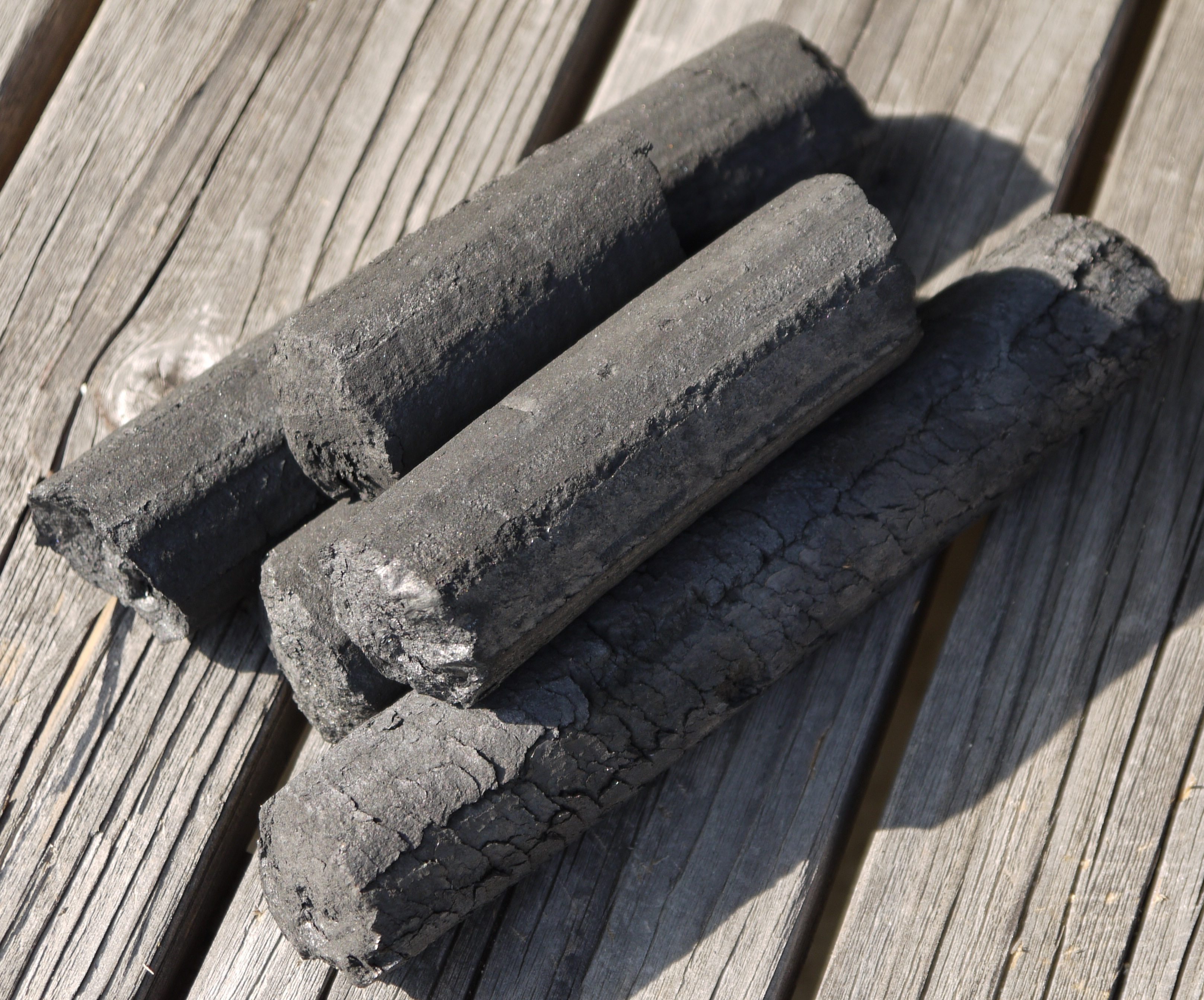 Ogatan solid: Biomass briquettes are a biofuel substitute to coal and charcoal; this one is from Japan and is made mostly of charcoal.